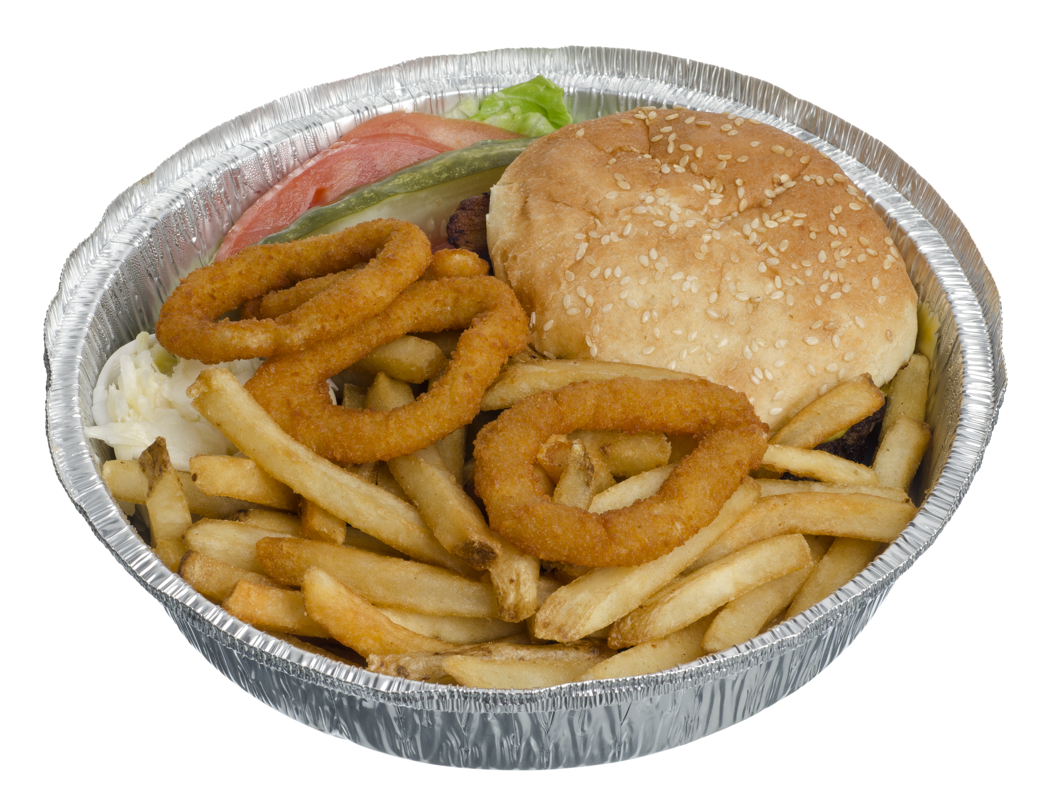 A bacon cheeseburger in a to-go container. This cheeseburger came from a diner in Brooklyn, New York, where the round foil containers are common to-go holders. This is a bacon cheeseburger deluxe, which comes with lettuce, tomatoes, a dill pickle, coleslaw, french fries and onion rings. It came in a brown paper bag with plastic silver, napkins and ketchup, mustard and mayo packets.